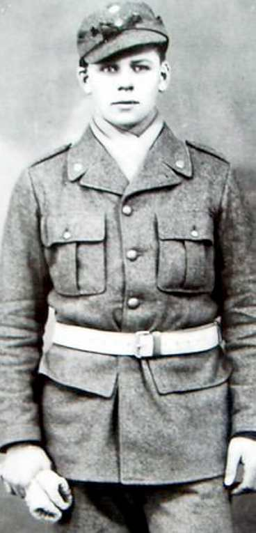 Picture of a 18 year old Allan Mann. Mann, a highly decorated Swedish military (captain), began his career as a volunteer in the Finnish Winter War in 1939. Allan Mann became the most decorated Swede in World War II and is mentioned as one of Sweden's best-known officers of modern times.